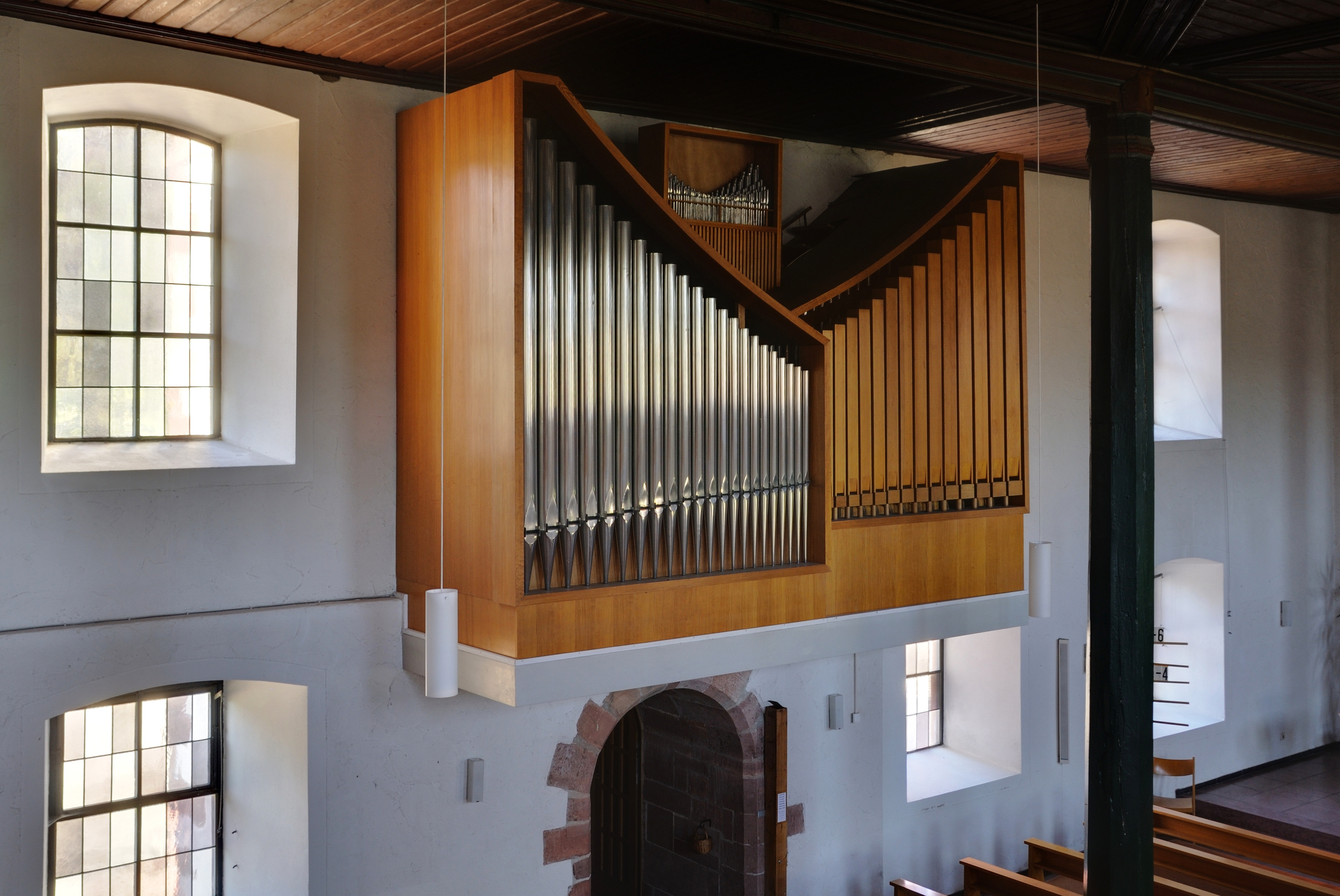 Schopfheim-Gersbach: Protestant Church